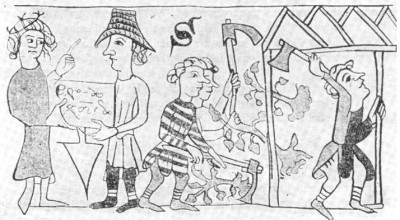 Creating a Village. Sassenspegel ca. 1300